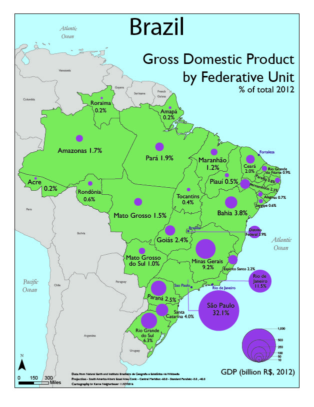 Map of Brazil Percent Gross Domestic Product by Federative Unit